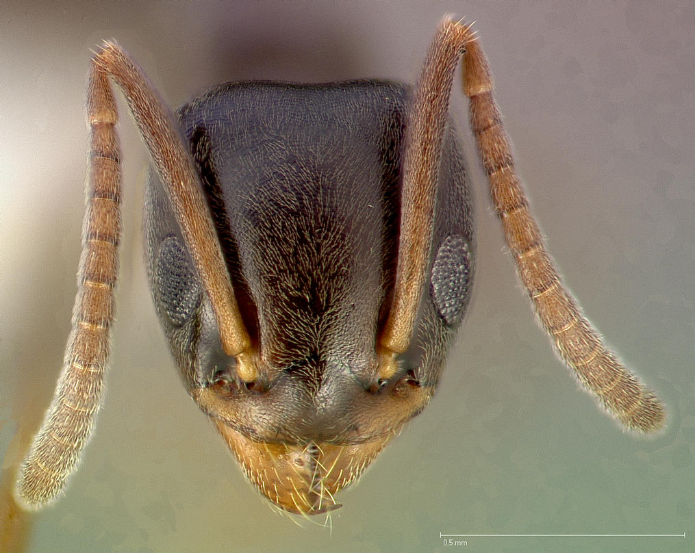 Head view of ant Tapinoma sessile specimen casent0005329.